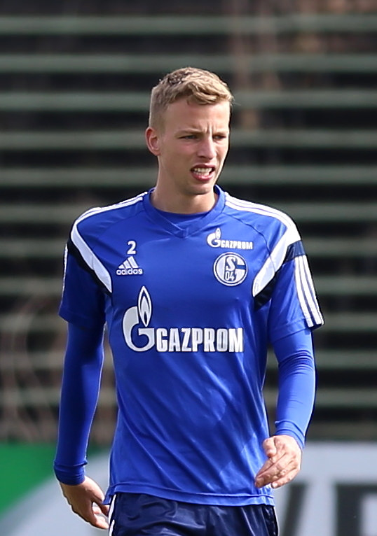 Marvin Friedrich during a training for FC Schalke 04 in April 2015